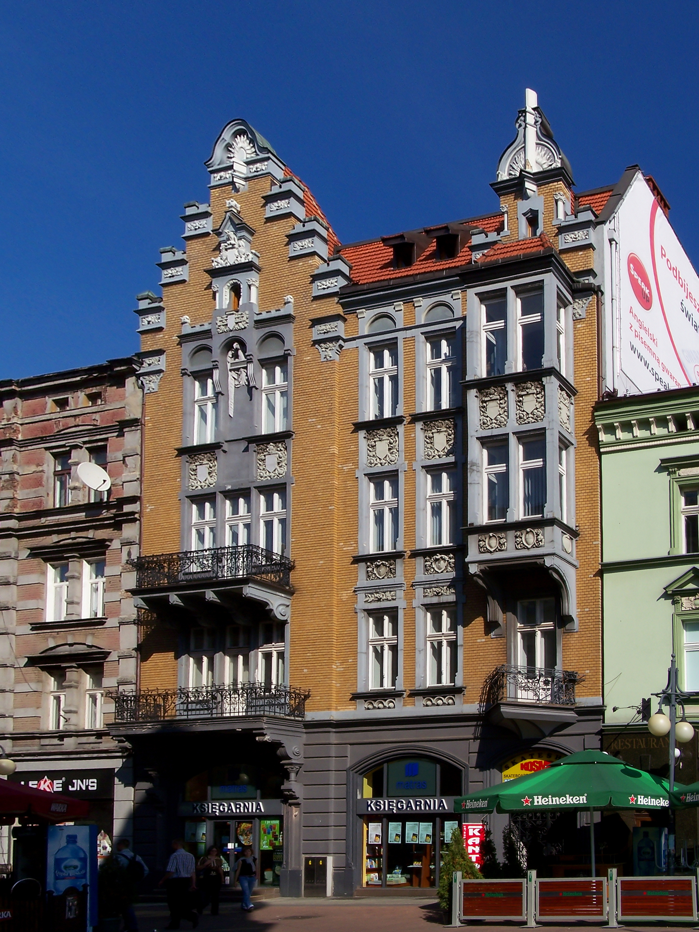 Stawowa Street in Katowice (Poland).